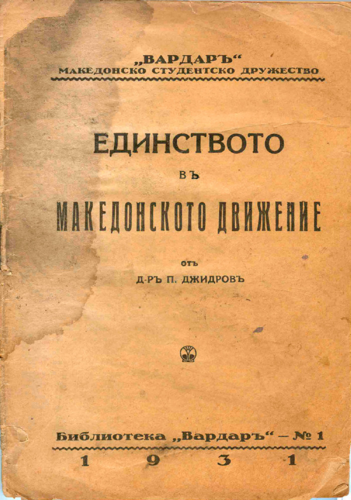 Edinstvoto v Makedonskoto Dvizhenie